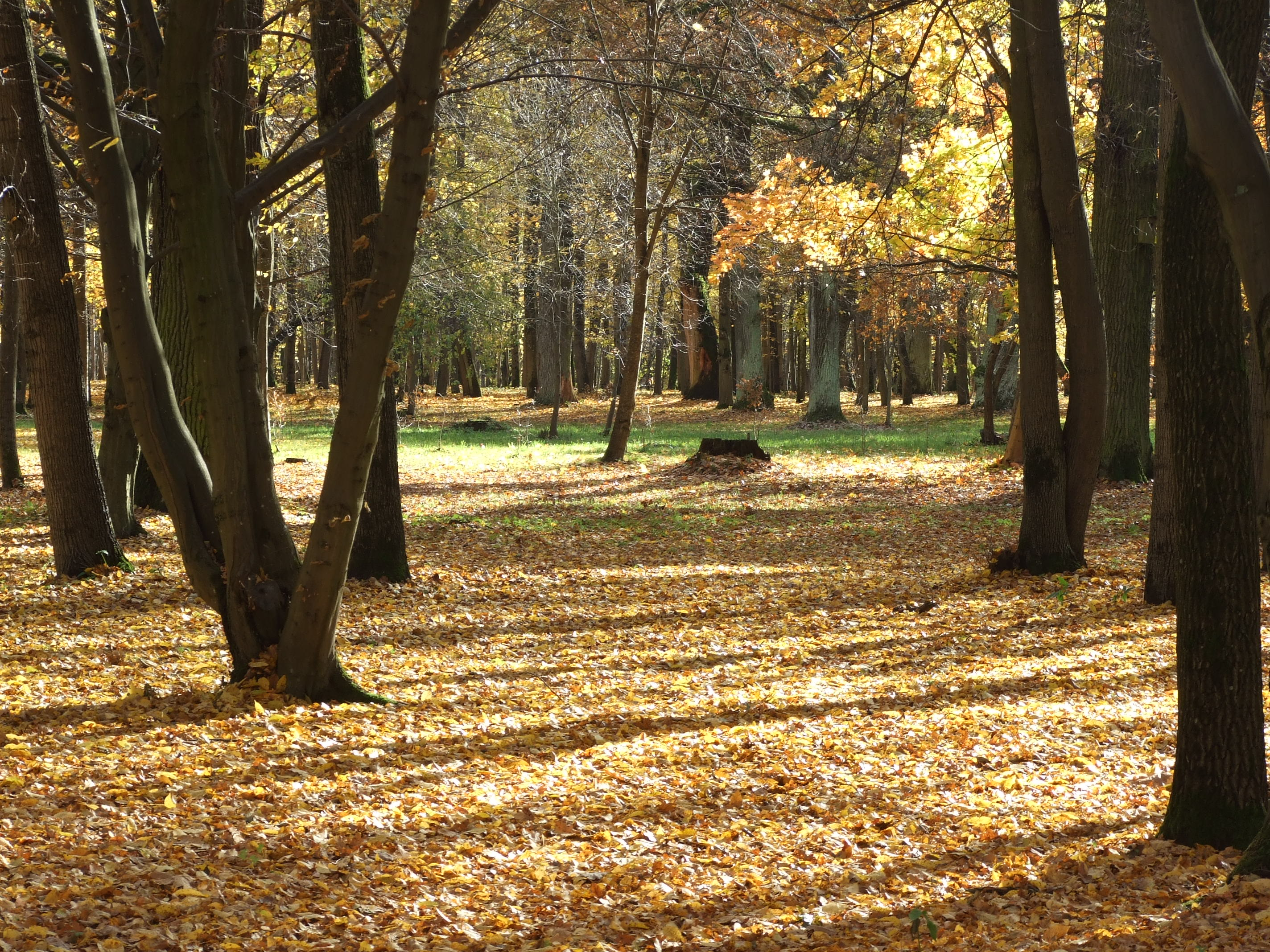 Ąžuolynas, old oak forest park, Kaunas, Lithuania.